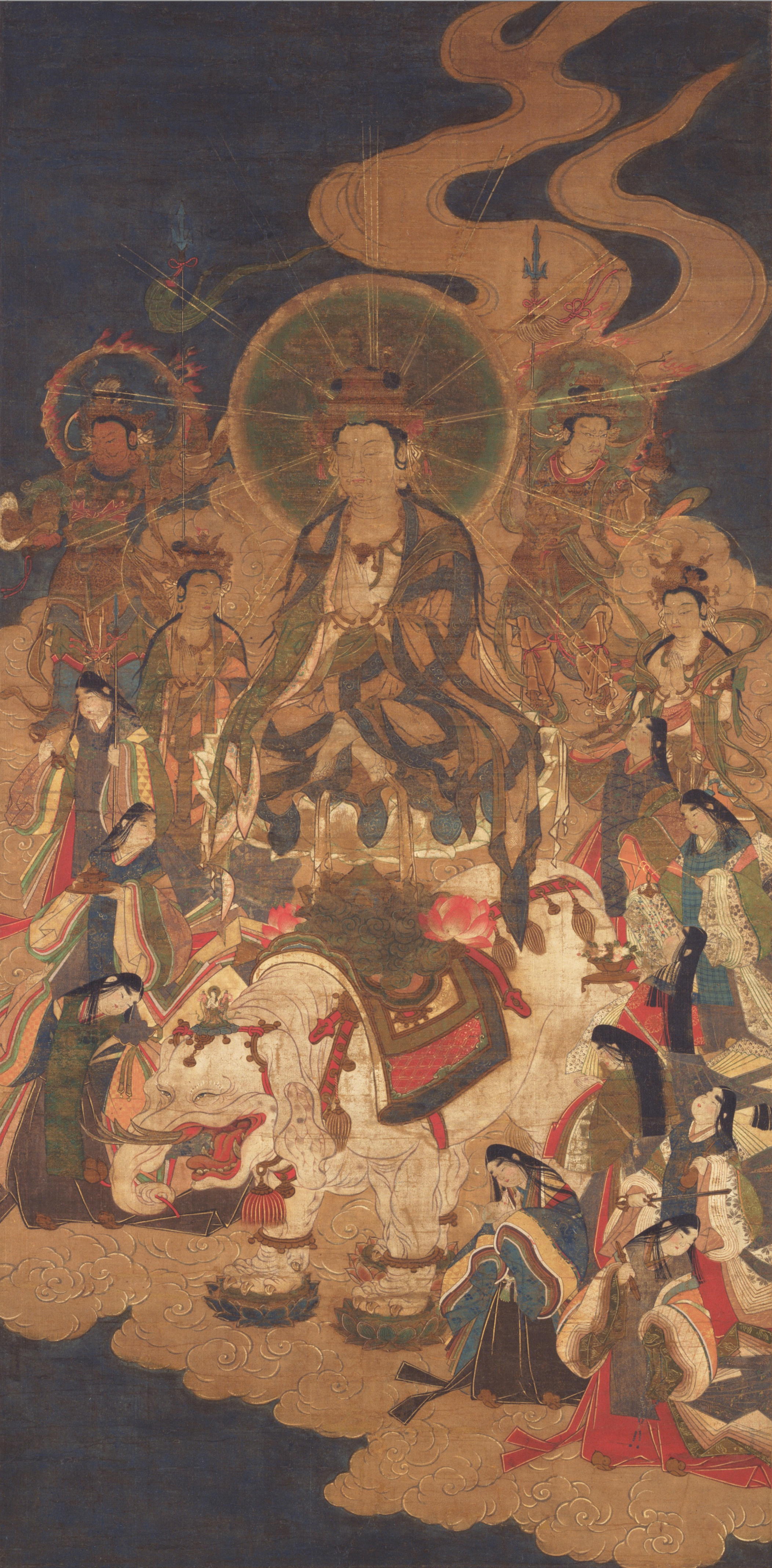 Fugen and the Ten Rasetsunyo, Nara National Museum, Japan